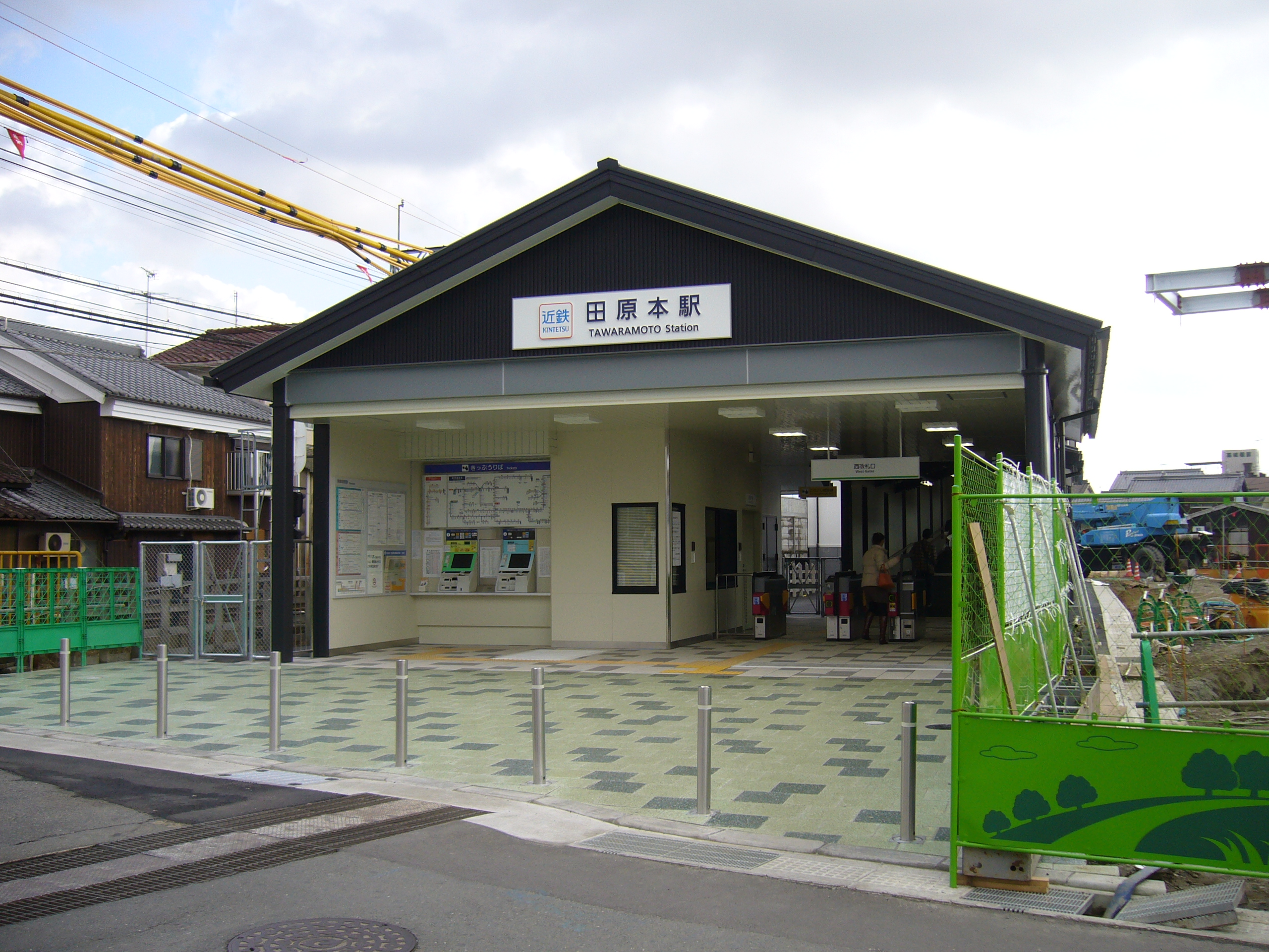 This is a picture of Tawaramoto station west entrance,Kintetsu Kashihara line.